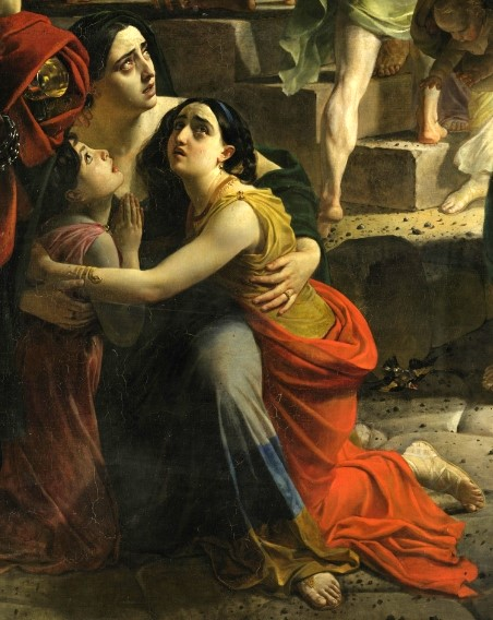 Detail of The Last Day of Pompeii.